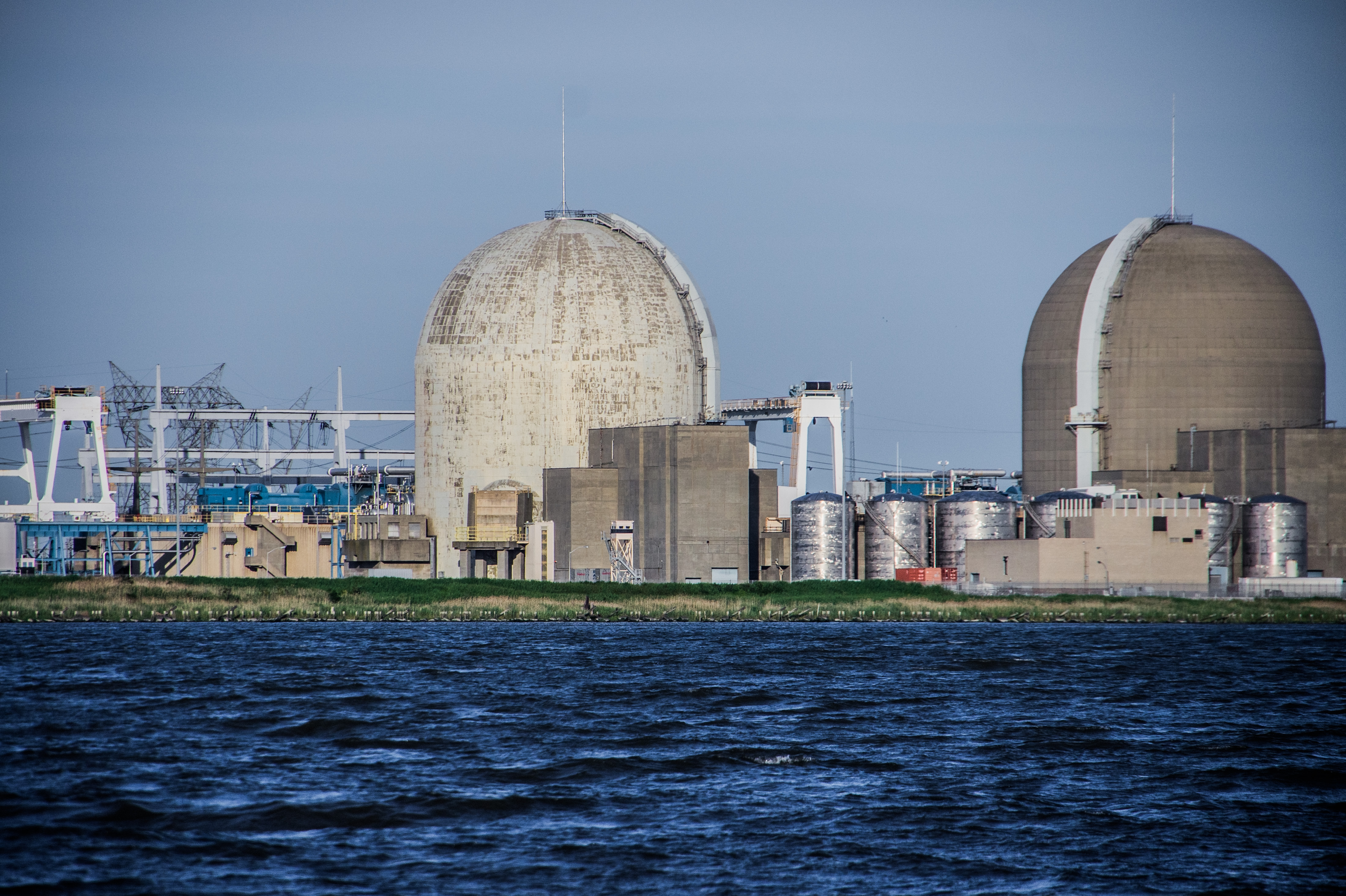 Salem Nuclear Power Plant, photo taken from the Delaware River, May 2012